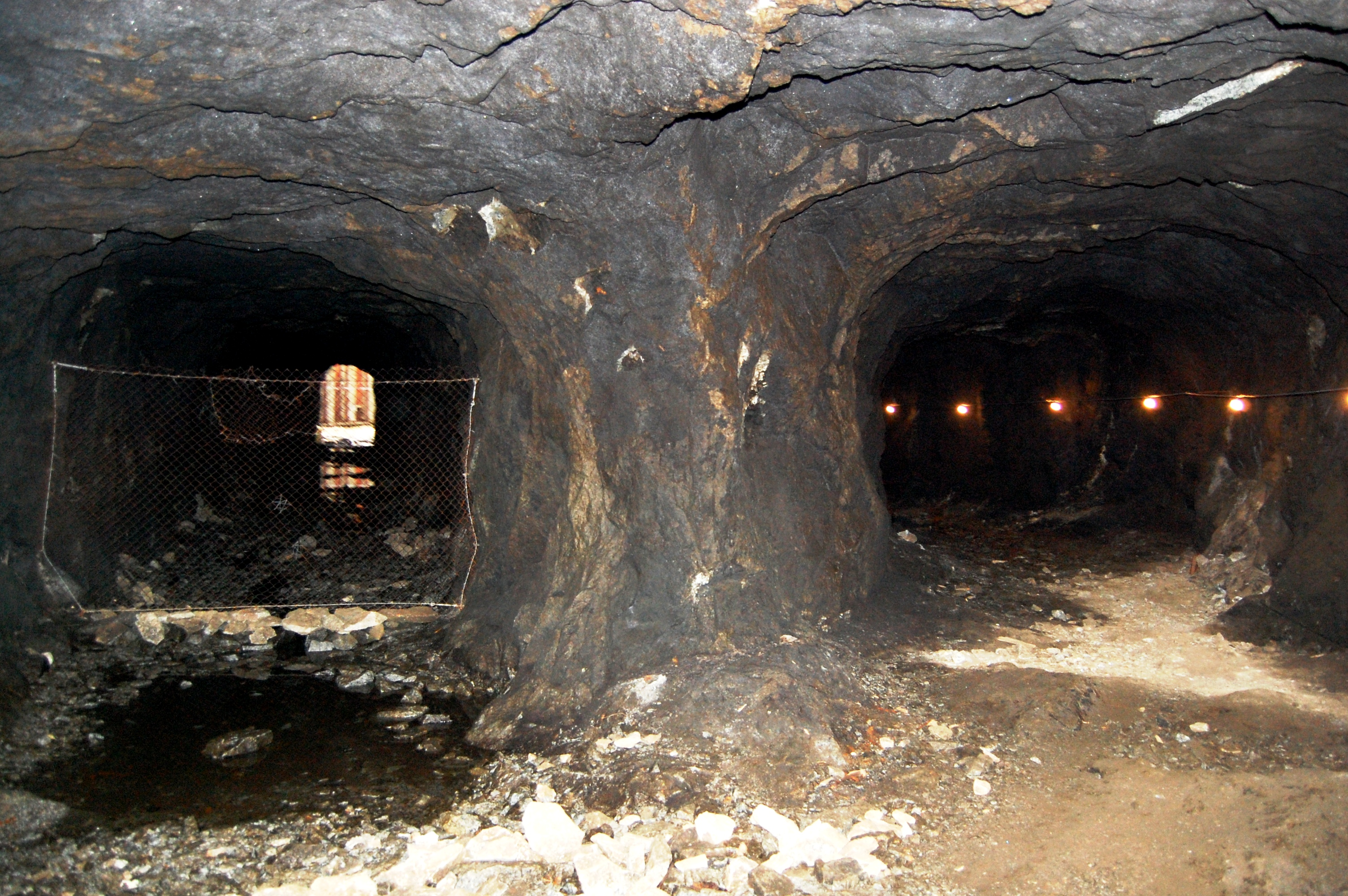 Tyssedal